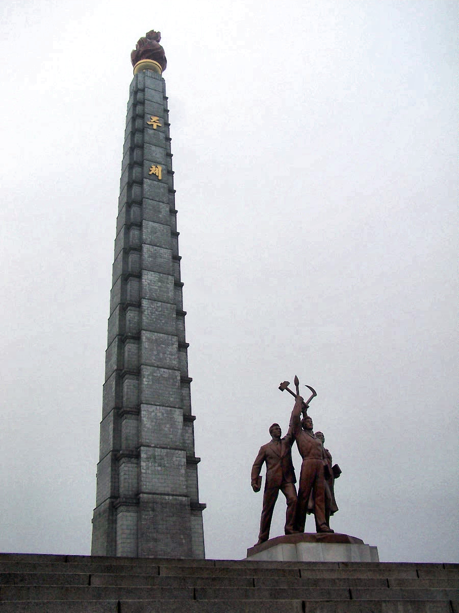 Juche Tower, Pyongyang.